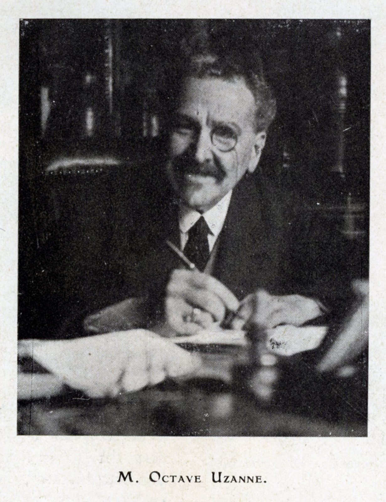 Uzanne in the book L’Imprimerie et la pensée moderne, Noël (1928)